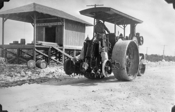 Construction of the original Overseas Highway near Matecumbe station